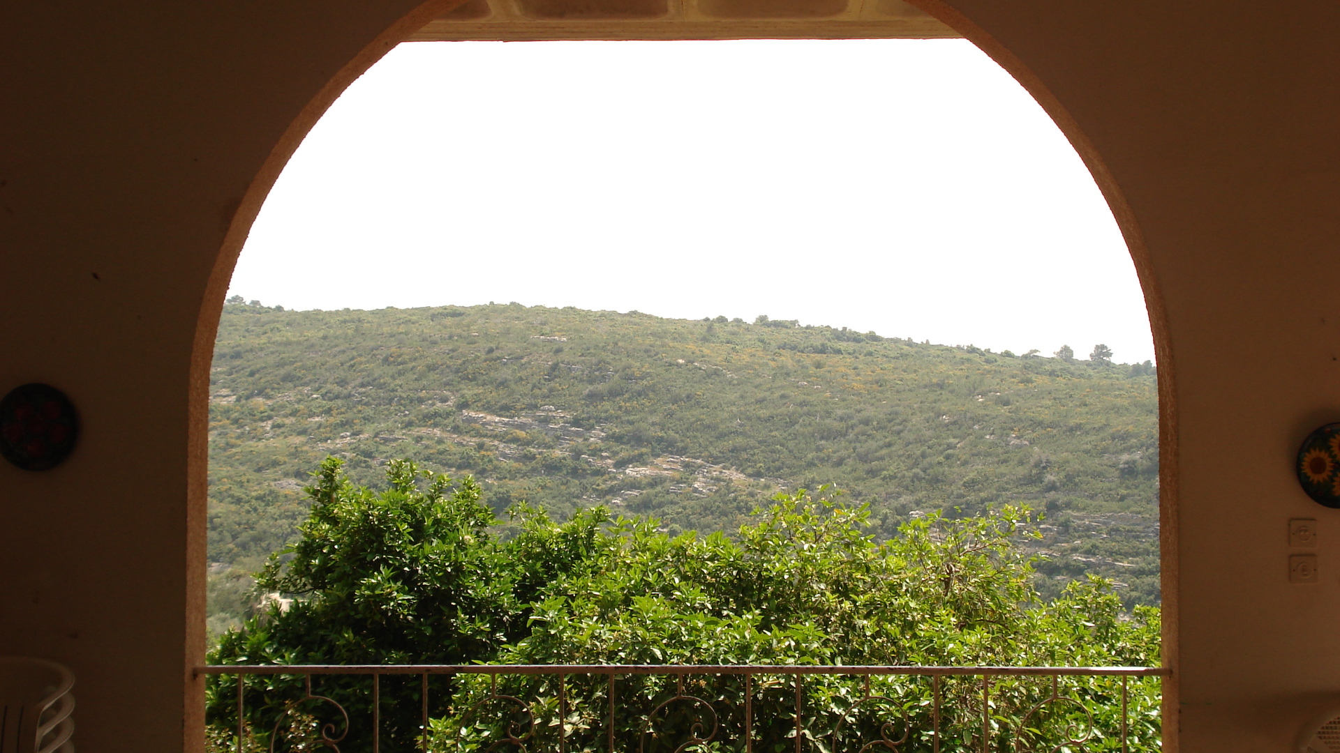 Ein Hod Artists\' Village is located in southern Caramel. The village was defined as a settlement which will deal with art and artists and art hold themselves. Over the years, established a central gallery private galleries of the artists village, workshops, an amphitheate